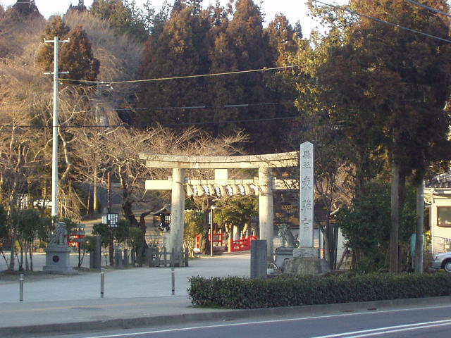 Sendai Tōshōgū's stone torii. Aoba ward, Sendai, Miyagi prefecture, Japan.